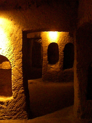 Cantarelle (San Gaudioso)